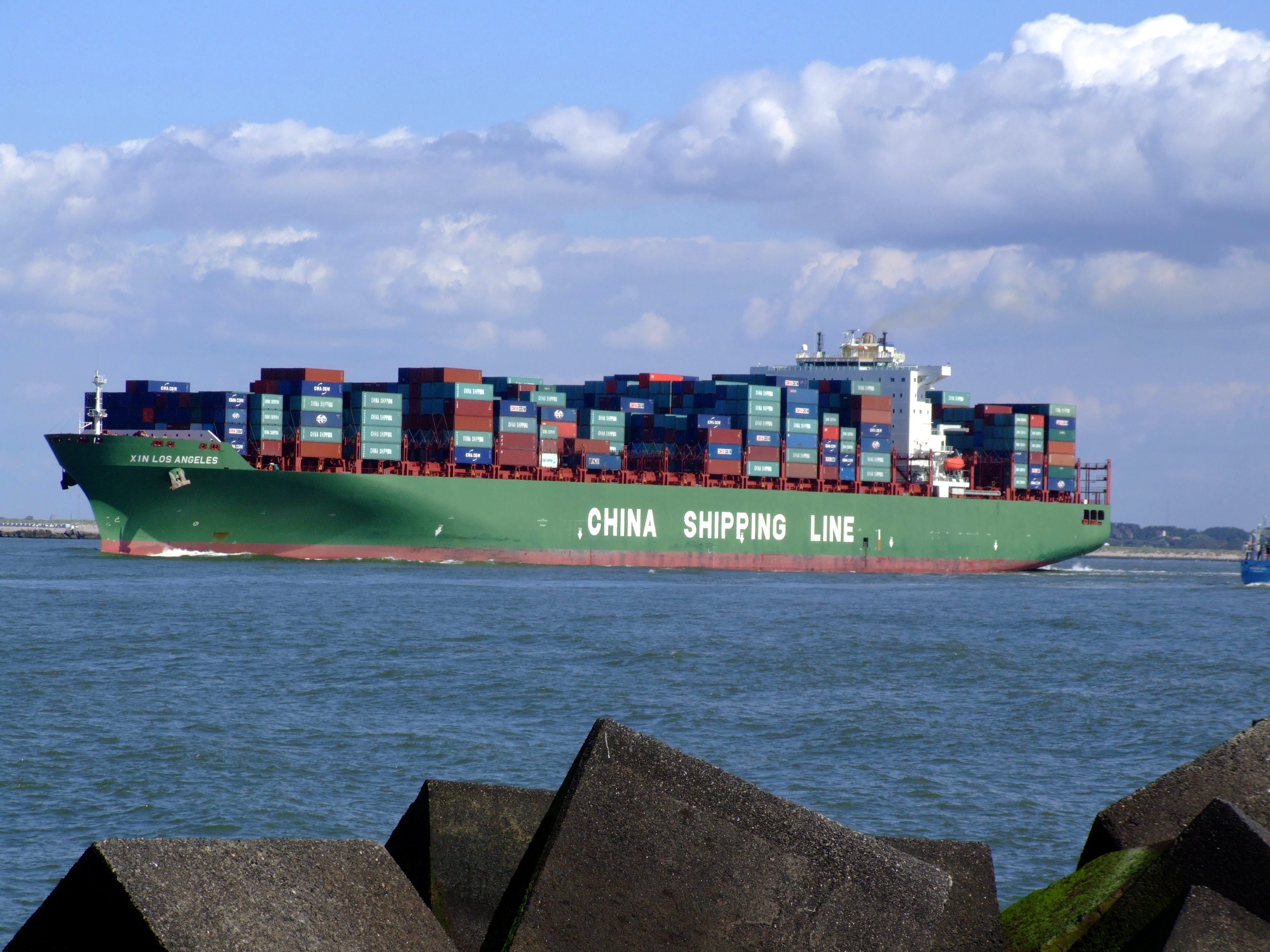 Xin Los Angeles, leaving Port of Rotterdam, Holland 29-Aug-2007.